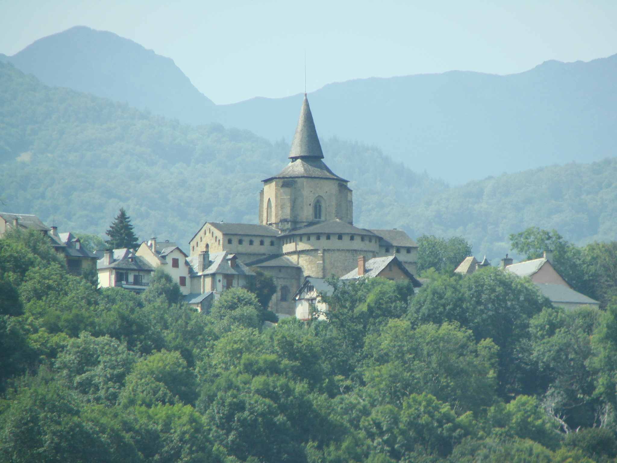 Abbey of Saint-Savin, commune of Saint-Savin in the department of Hautes-Pyrénées (France)